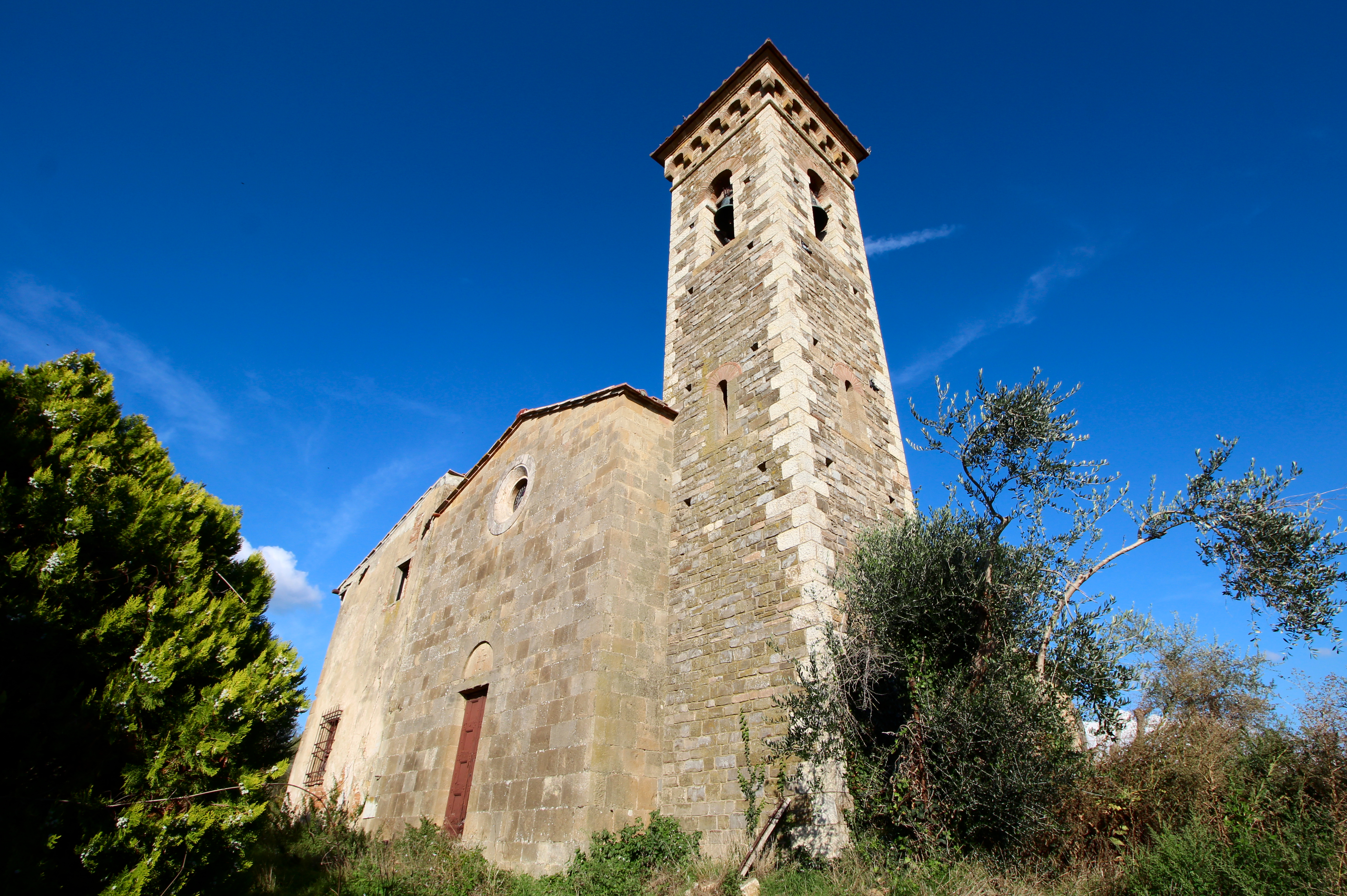 Church San Filippo, San Filippo a Ponzano, Ponzano, Barberino Val d'Elsa, Comune in the Metropolitan City of Florence, Tuscany, Italy